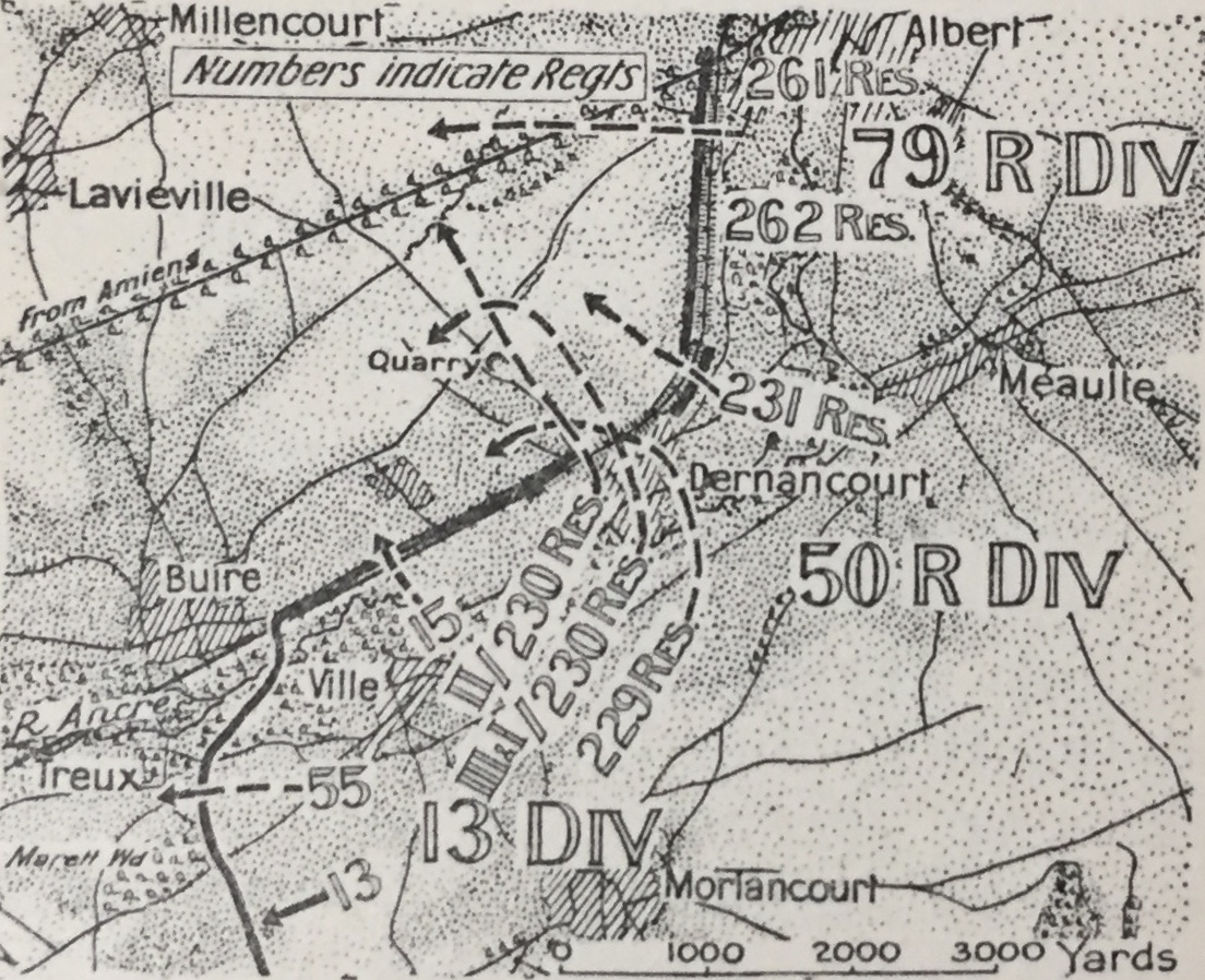 Map of the German plan of attack for the Second Battle of Dernancourt 1918